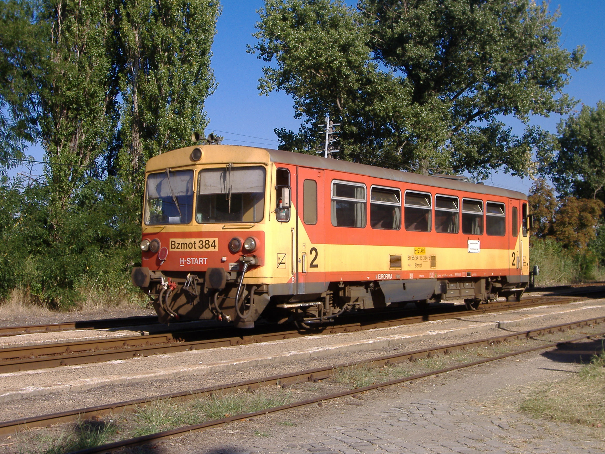 Bzmot 384 train in Makó-Újváros railway station in Makó, Hungary.